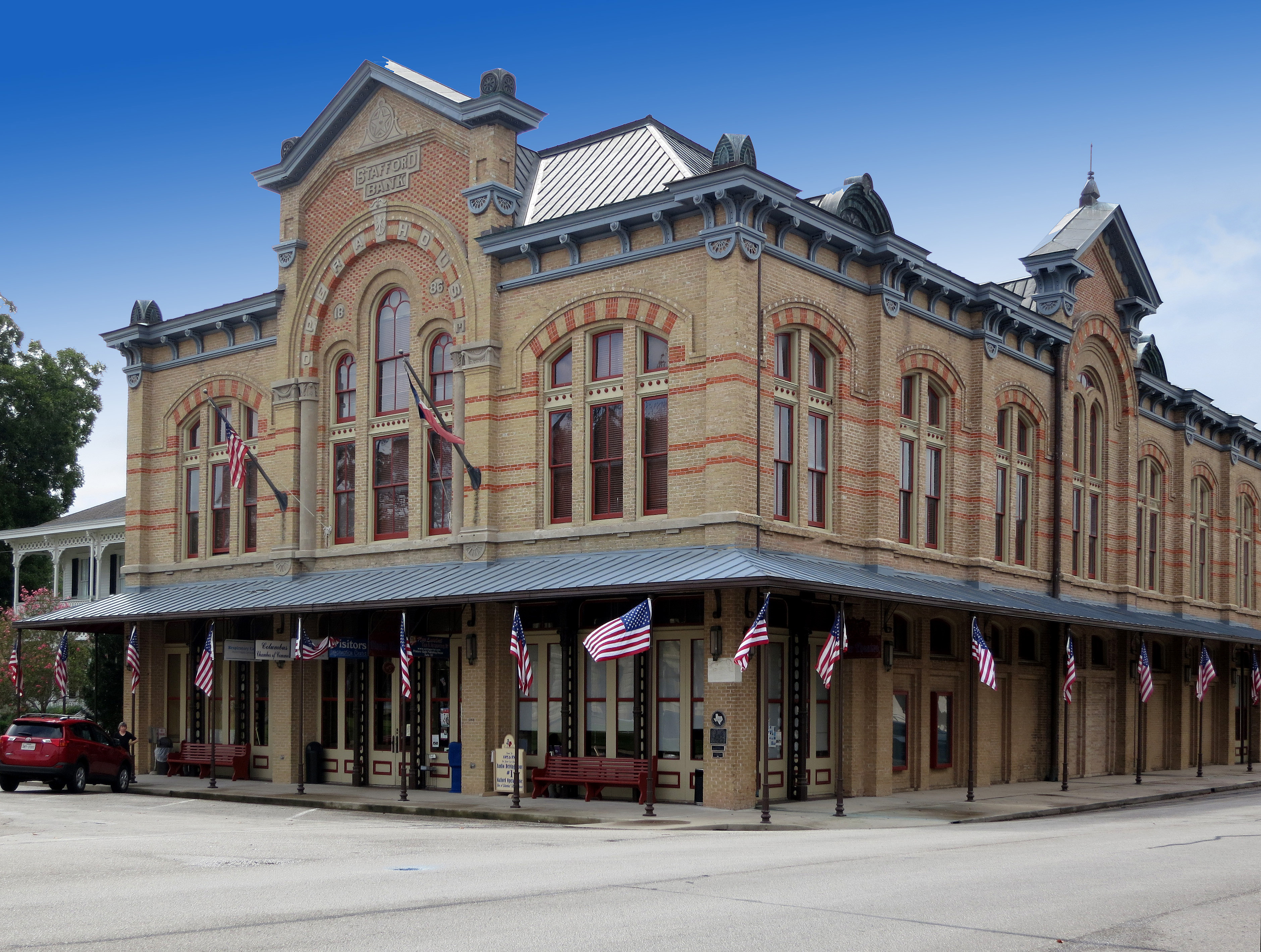 Built 1886 by R.E. Stafford, 1834-1890, millionaire cattleman. Stately interior (which seated 1,000) had gas-burning chandeliers and an elaborate hand-painted curtain. Architect was N.J. Clayton, who designed many opulent Texas buildings. Opening performance, "As in a Looking Glass," starred famous Lillian Russell. Magician Houdini also played here, as did other prominent entertainers. On performance days, special trains ran from distant towns.